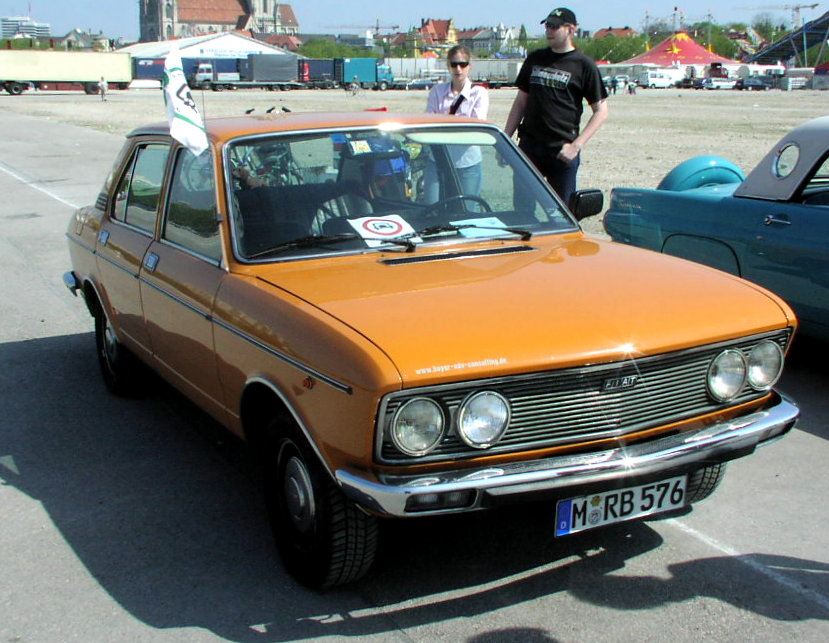 Fiat 132-1600